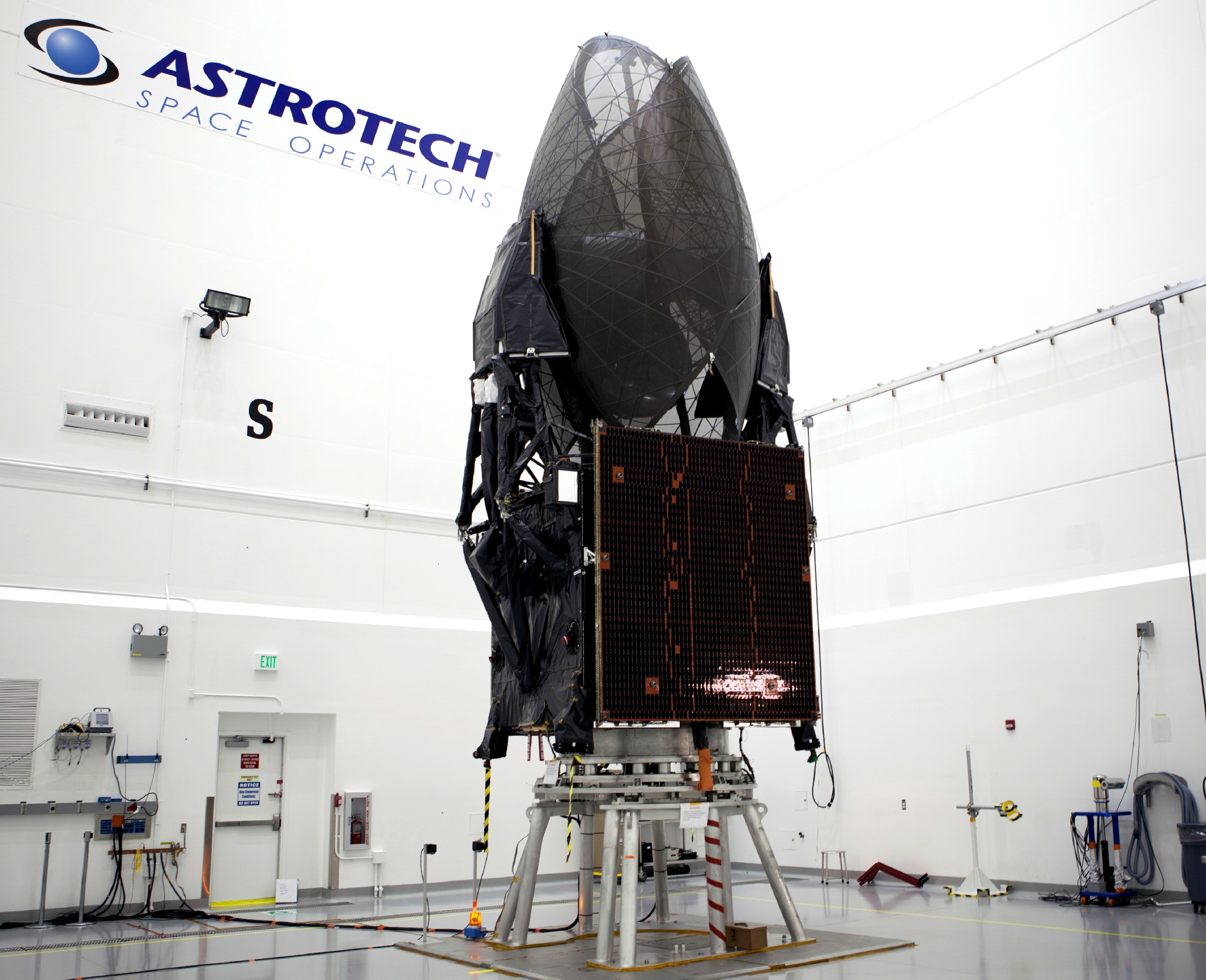 Inside the Astrotech payload processing facility in Titusville, NASA's Tracking and Data Relay Satellite, or TDRS-L, spacecraft is undergoing preflight processing. TDRS-L is being prepared for encapsulation inside its payload fairing prior to being transported to Launch Complex 41 at Cape Canaveral Air Force Station.